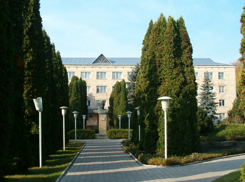 The Berezne Forestry College, man's hostel (dormitory)